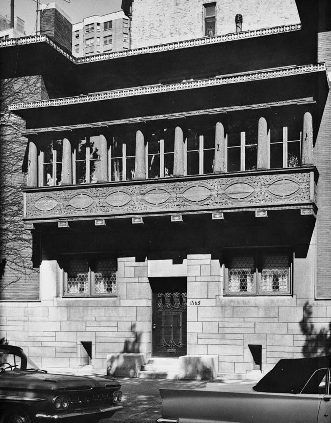 Balcony detail of west (front) facade, James Charnley House, 1365 North Astor Street, Chicago, Cook County, IL.